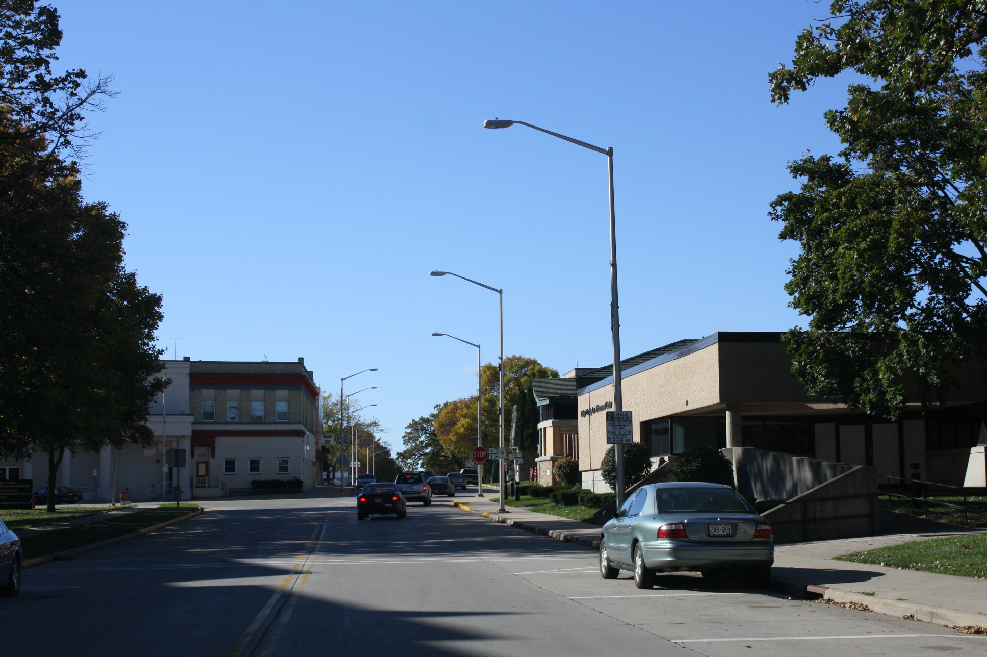 Looking south in downtown Juneau, Wisconsin along Wisconsin Highway 26.